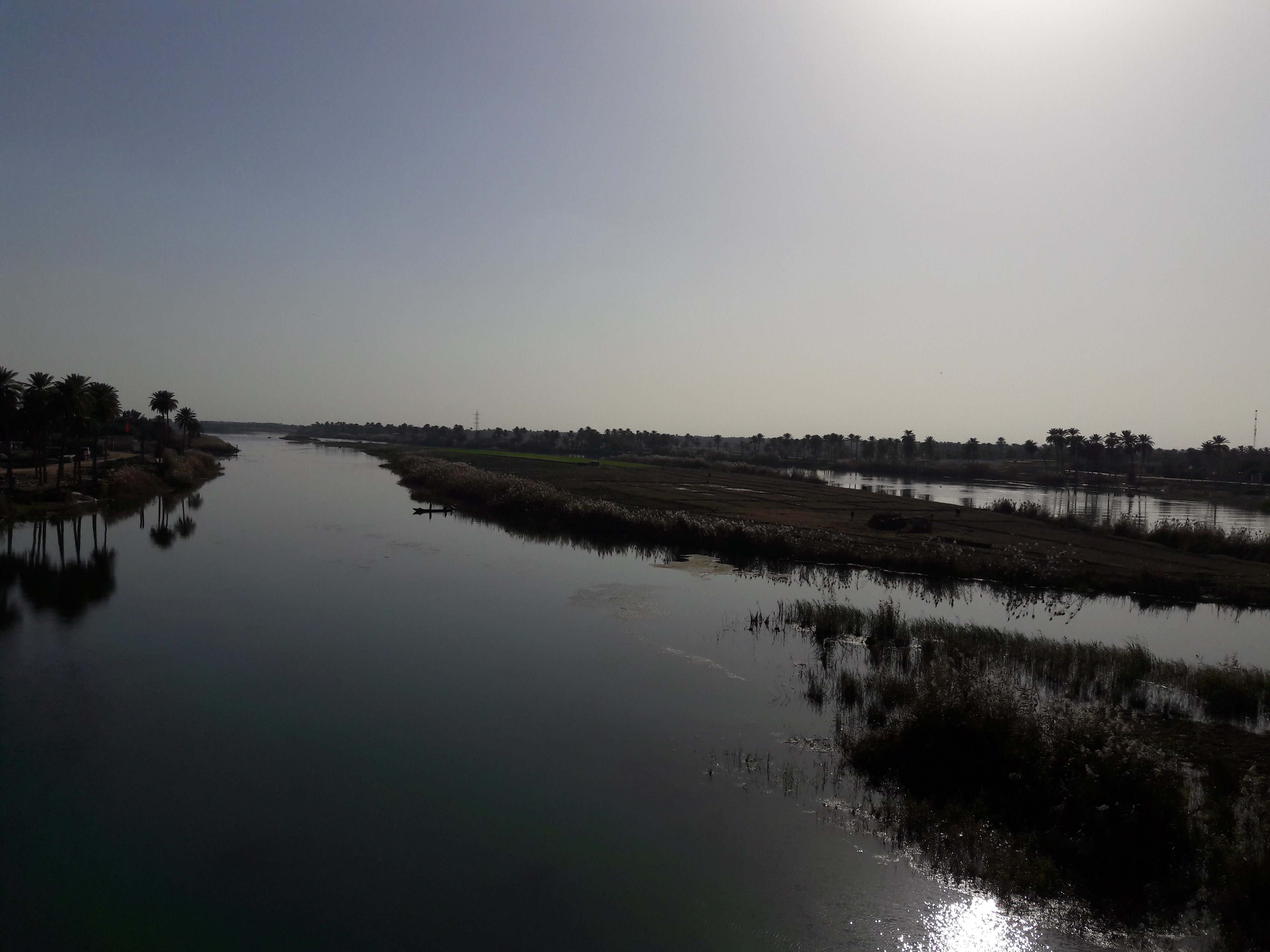 Island in the river of Euphrates(Shat-Al-Hindiya) at Al Kifl southwest Iraq